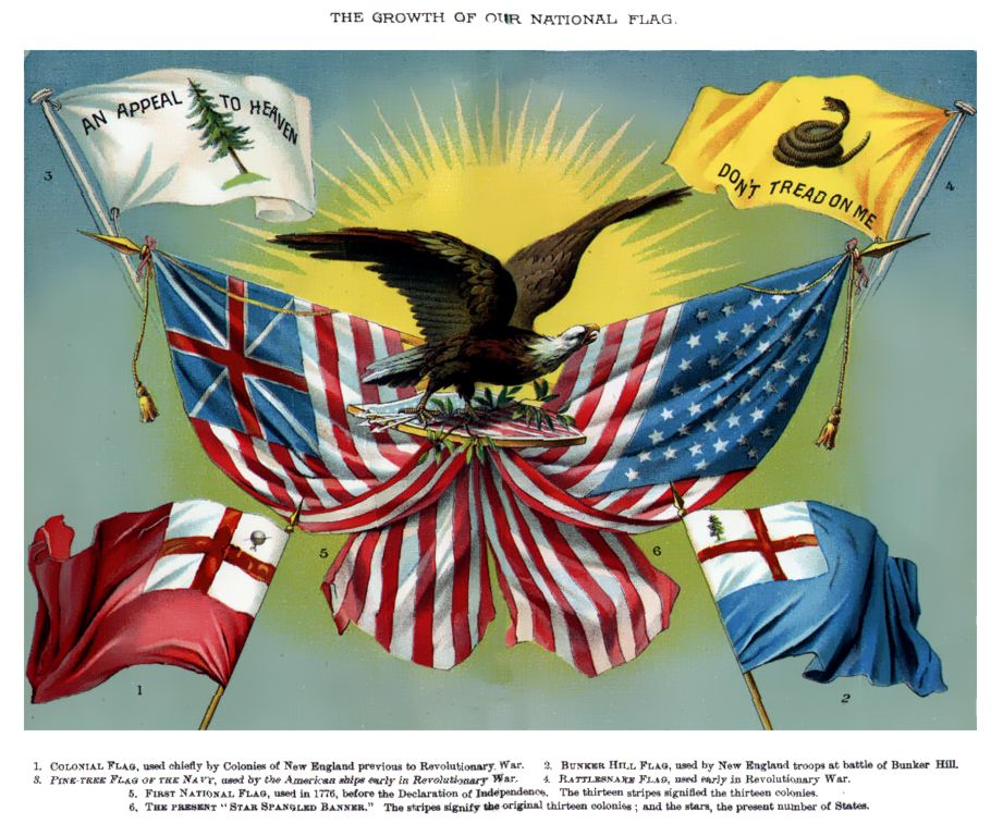 Illustration from an old High School textbook, titled "History of the US". Shows the "Appeal to Heaven" pine tree flag and Gadsden flag at the top, the "Grand Union" flag and a 45-star version of the United States flag (used 1896-1908) in the center, and two versions of the New England flag (one with an incorrect globe taken from an old erroneous flag chart) at the bottom.